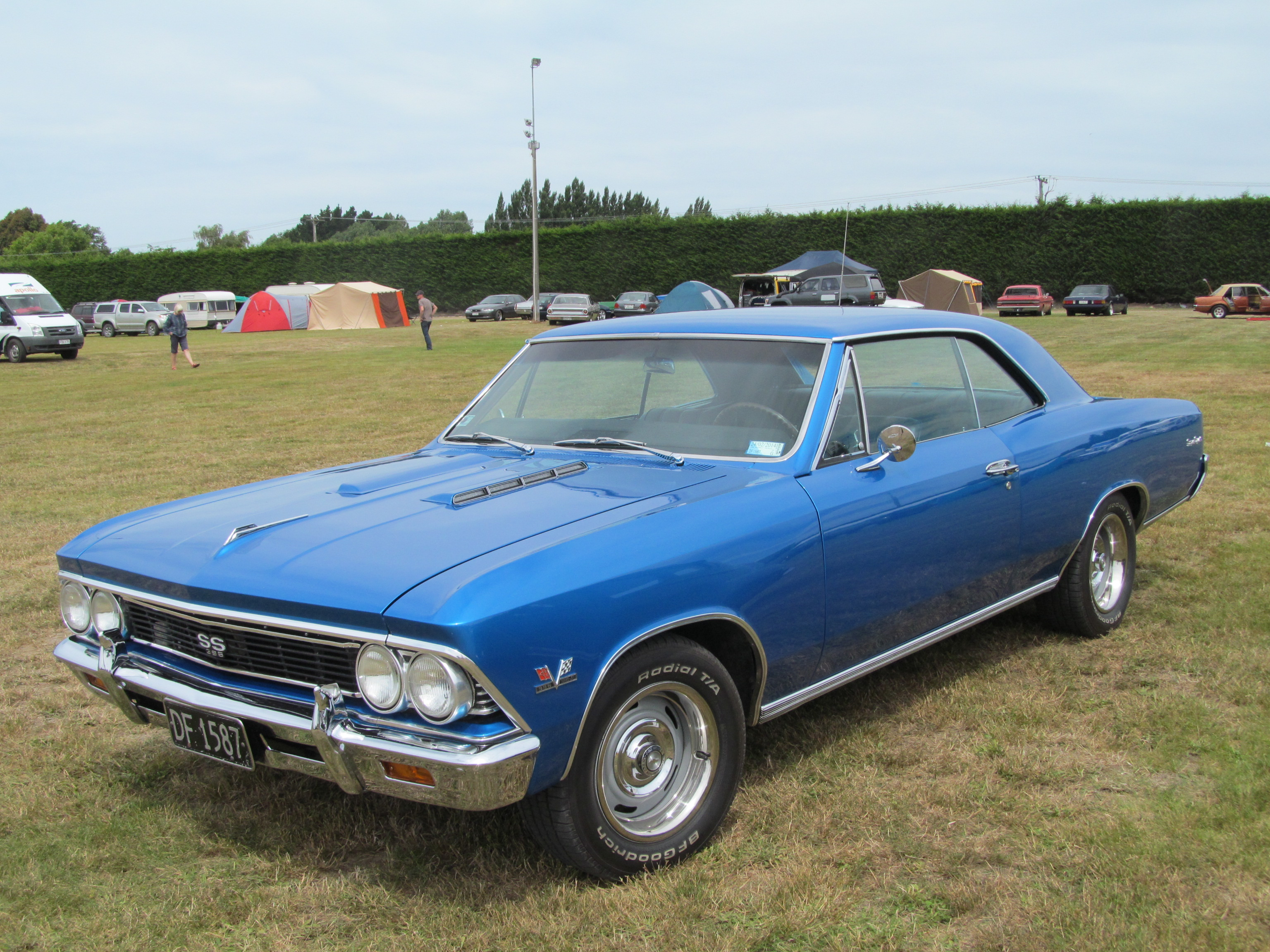 A rare one here! I don't think I've see any other Chevelles like this; the one here arrived in NZ in mid 1968 when it was still quite new. One of the more desirable muscle cars I reckon.